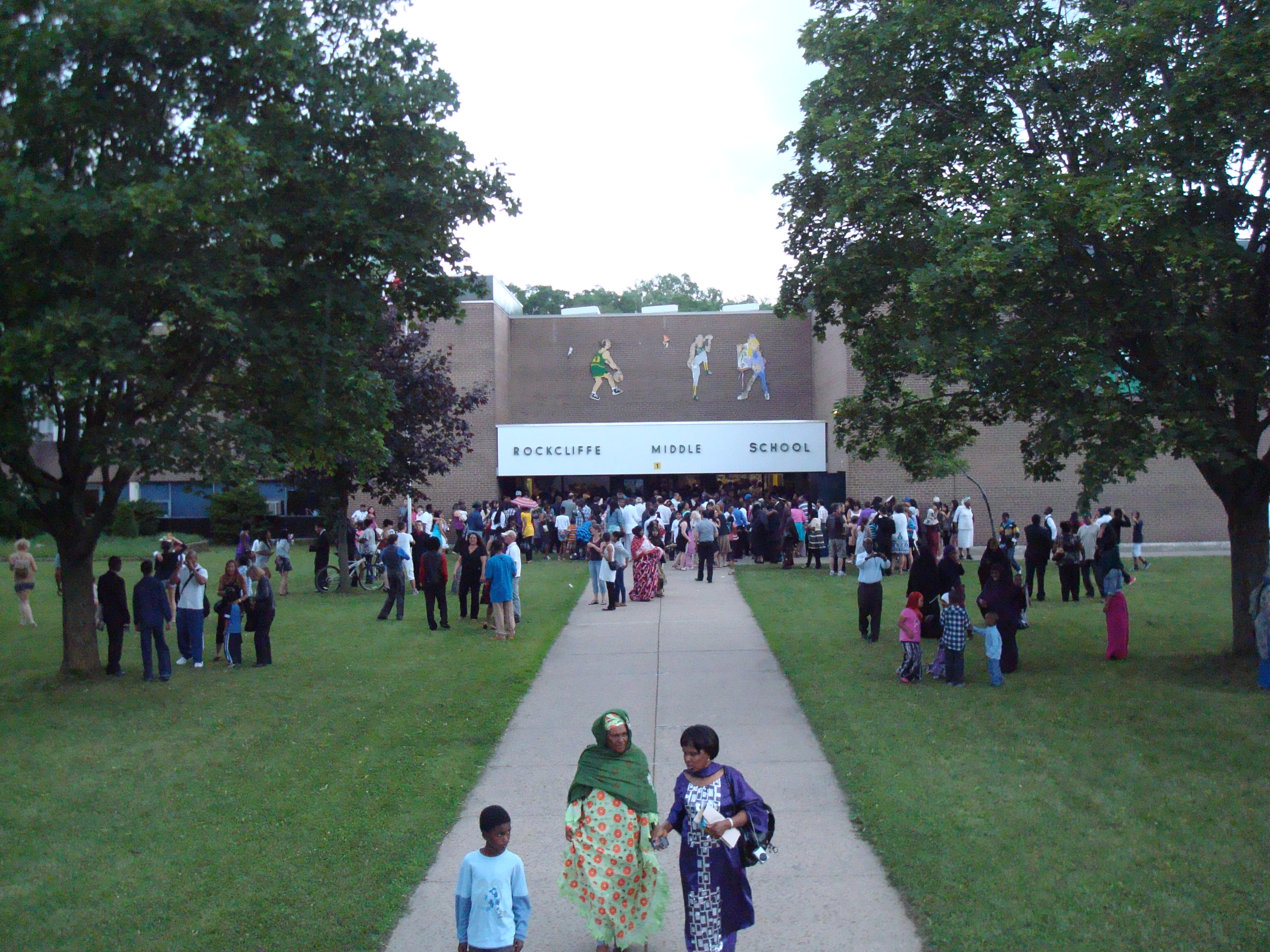 The main entrance to Rockcliffe Middle School during that school's graduation ceremony on June 28 2011. Toronto, Ontario, Canada.